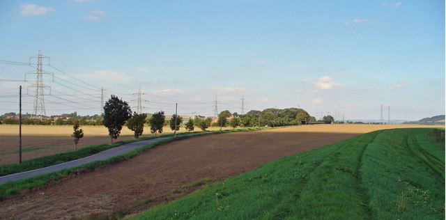 Near Waterton Hall Photo taken from the Trent bank looking along the road to Garthorpe.